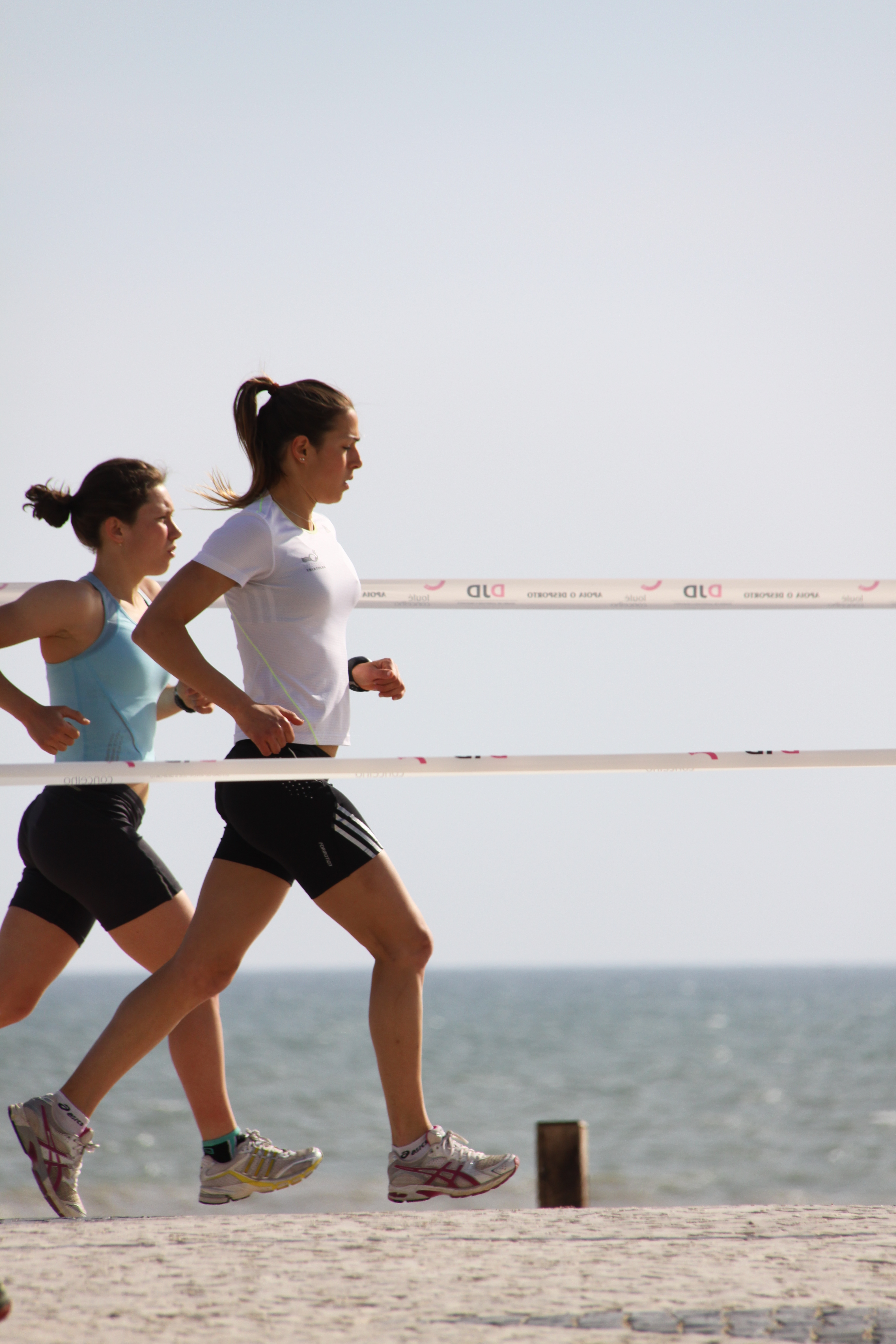 Charlotte Morel and Emmie Charayron at the triathlon in Quarteira, 2010